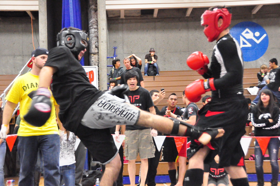 Fighter throwing a lowkick during an amateur muay thai competition.